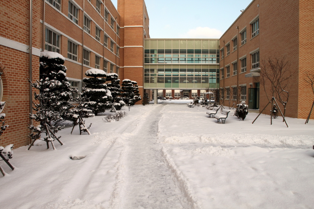 Cheonan Girls' High School in the Snow